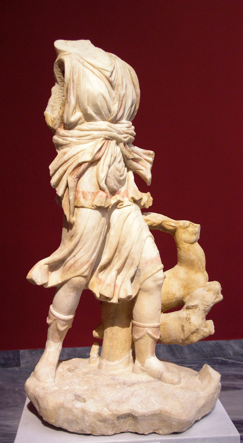 Statue of the “Diana of Versailles” type: the goddess thrusts forward, right hand laid on the horns of a hind, escorted by a hound. Marble, Roman copy after a Greek original of the 4th century BC attributed to Leochares.